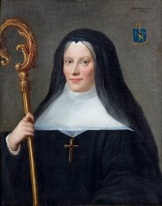 Marguerite de Guillermin, last abbess of the Abbaye Royale de Notre-Dame-des-Anges de Saint-Cyr-l'École